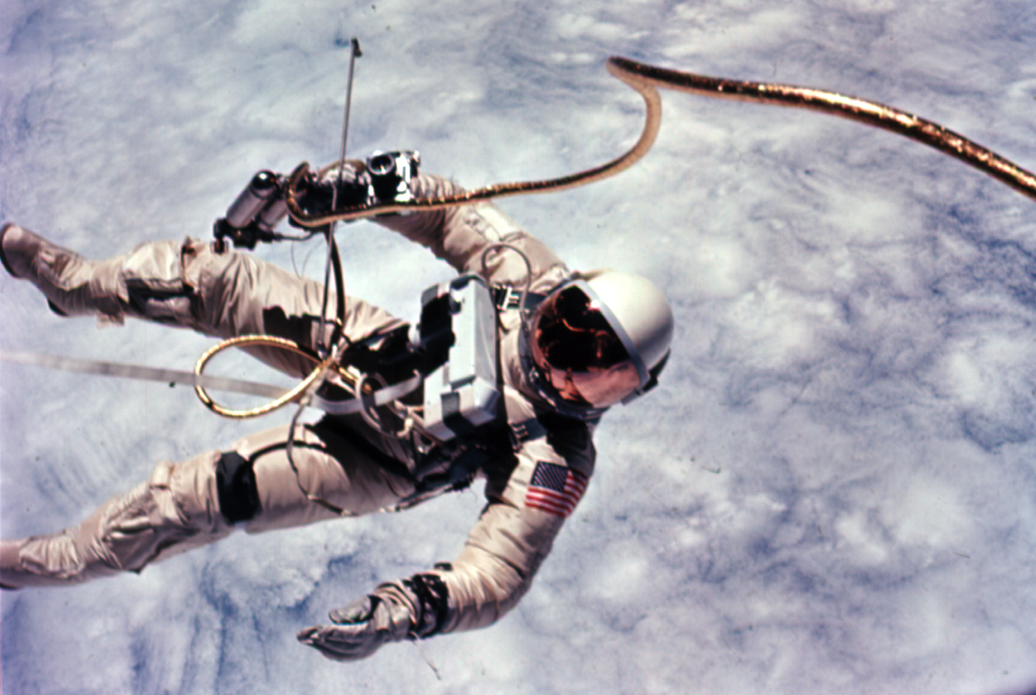 Title: Astronaut Edward White during first [American] EVA performed during Gemini 4 flight Description: Astronaut Edward H. White II, pilot for the Gemini-Titan 4 space flight, floats in zero gravity of space. The extravehicular activity was performed during the third revolution of the Gemini 4 spacecraft. White is attached to the spacecraft by a 25-ft. umbilical line and a 23-ft. tether line, both wrapped in gold tape to form one cord. In his right hand White carries a Hand-Held Self-Maneuvering Unit (HHSMU). The visor of his helmet is gold plated to protect him from the unfiltered rays of the sun.